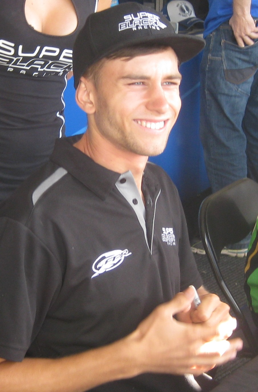 Andre Heimgartner at the 2015 Clipsal 500 Adelaide